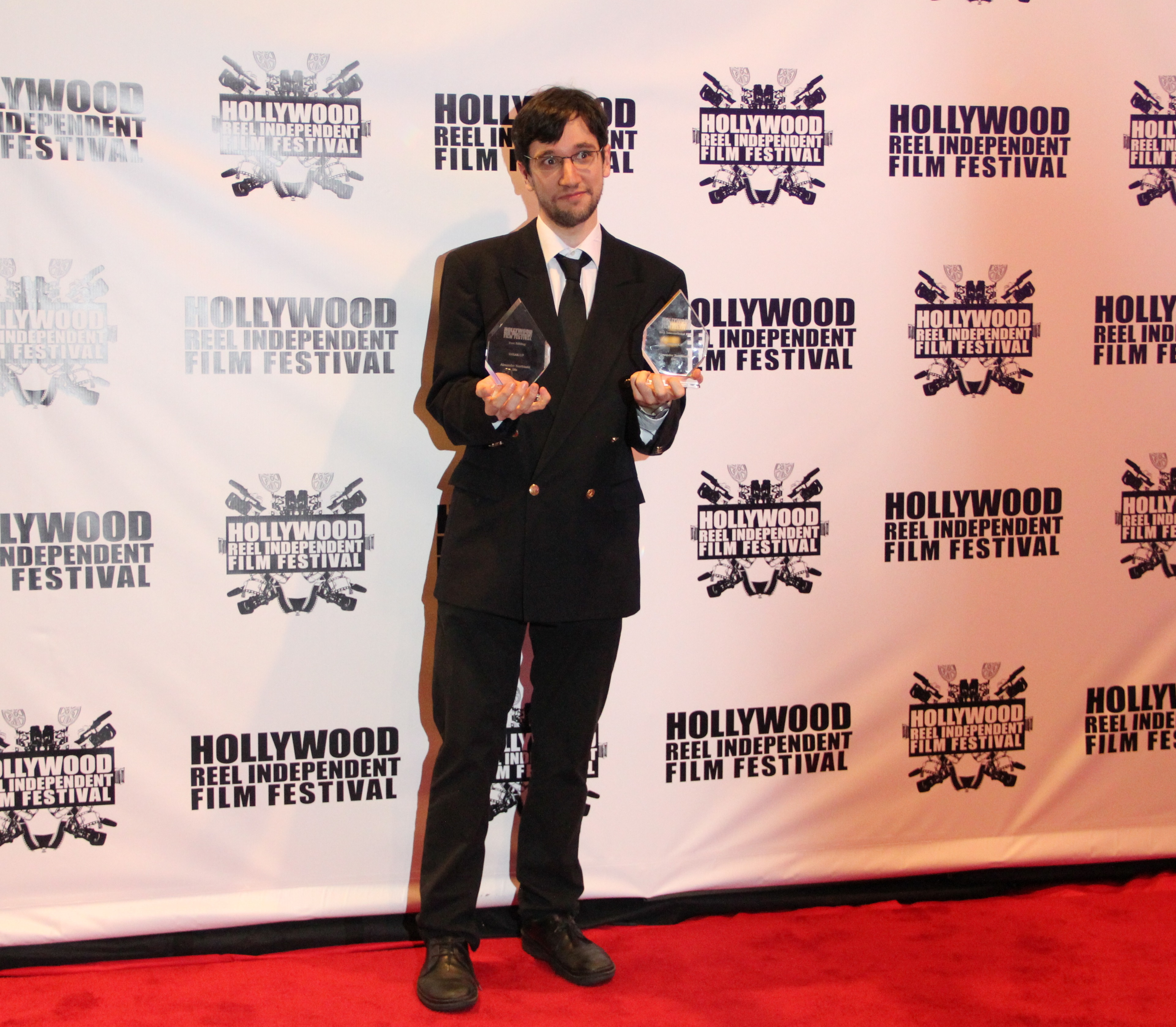 Alexander Tuschinski at Hollywood Reel Independent Film Festival 2015. The film "Break-Up", written and directed by him, won "Best International Film" and "Best Editing" there.